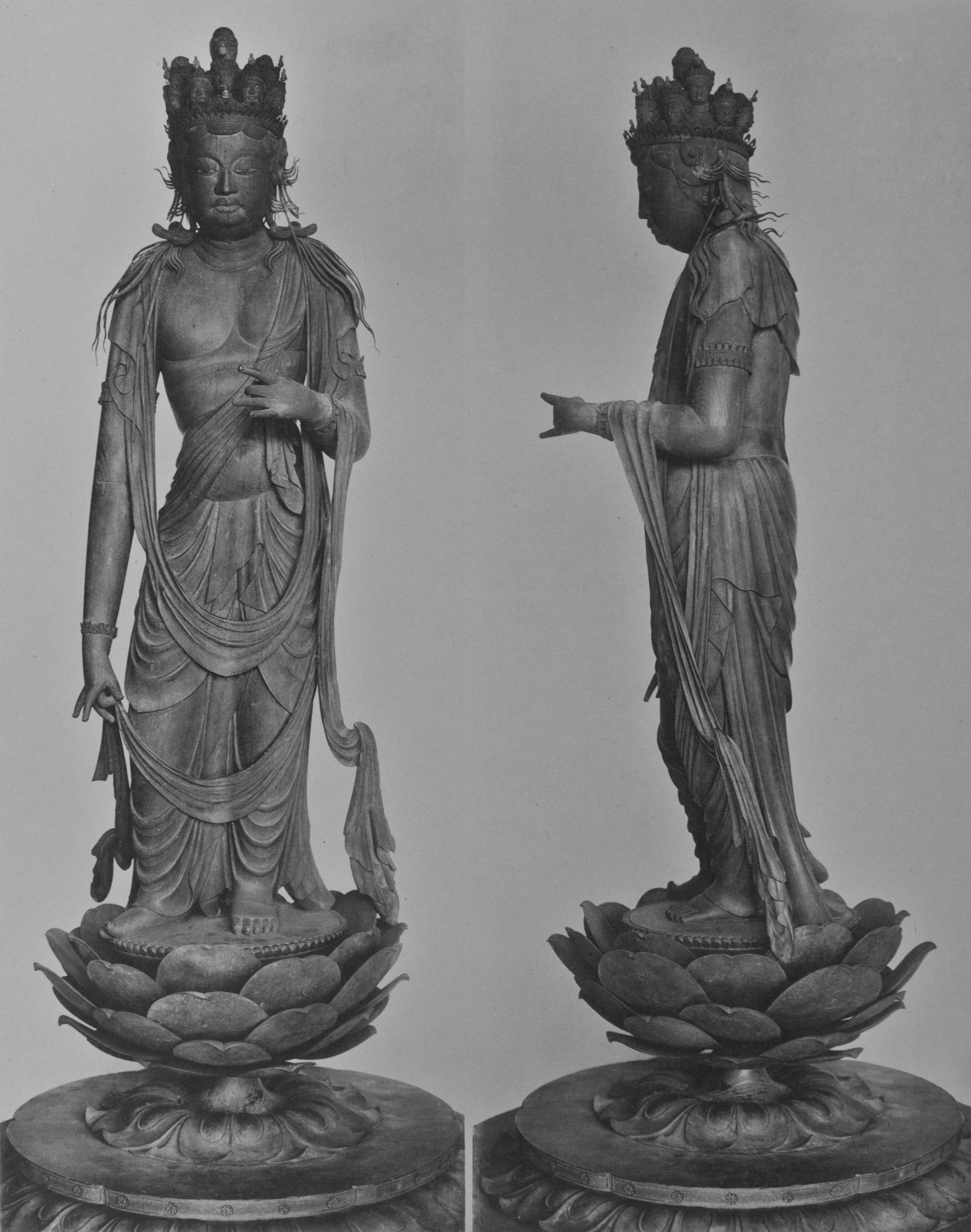 Hokkeji, Nara, Japan